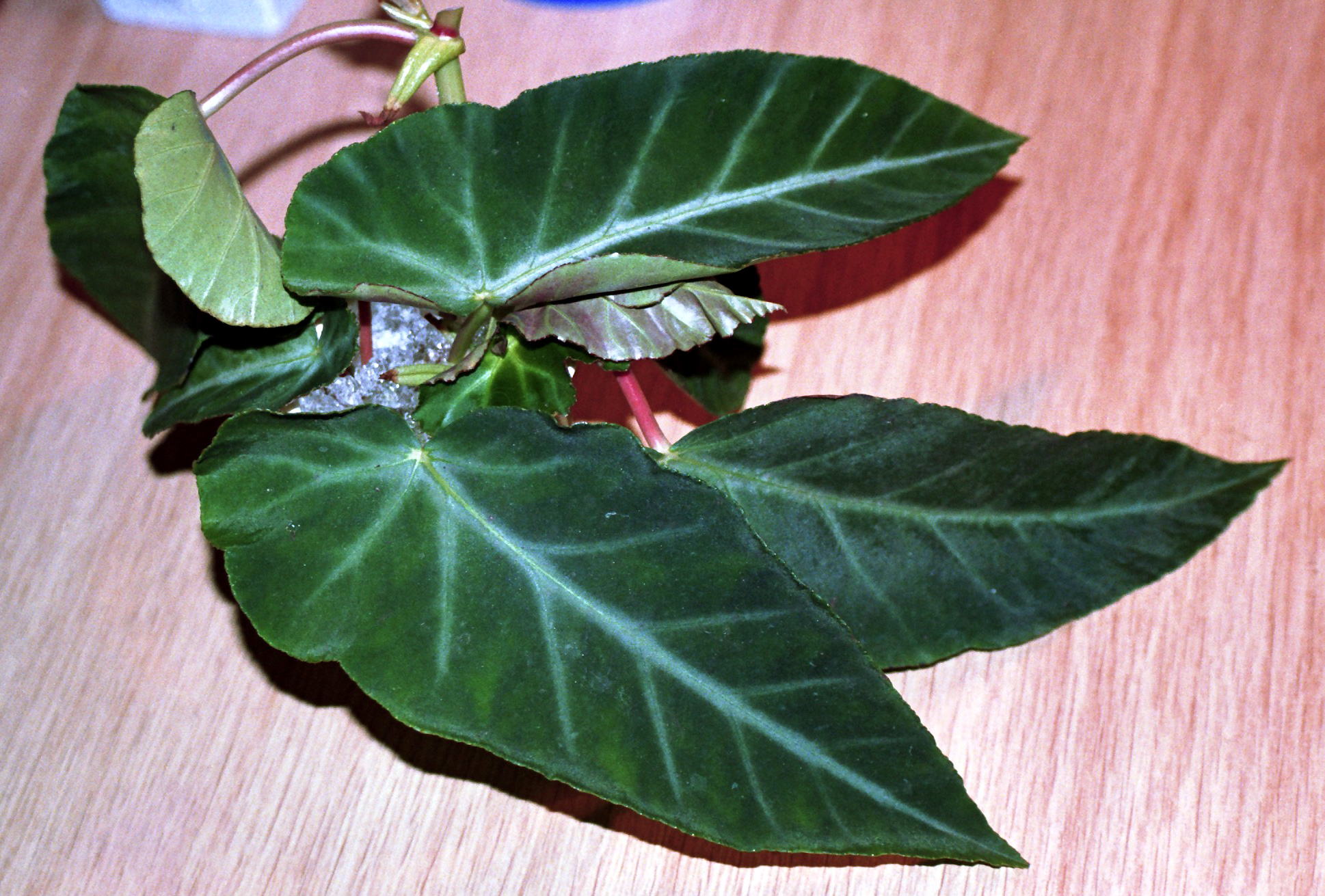 Begonia angularis (propagule).